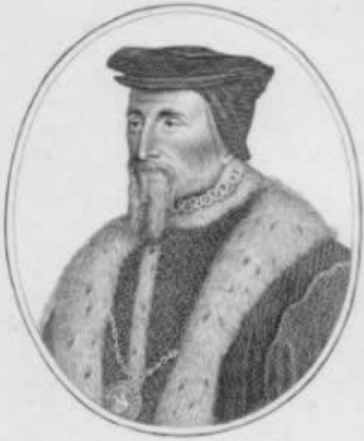 William Howard, 1st Baron Howard of Effingham (c1510-1573)